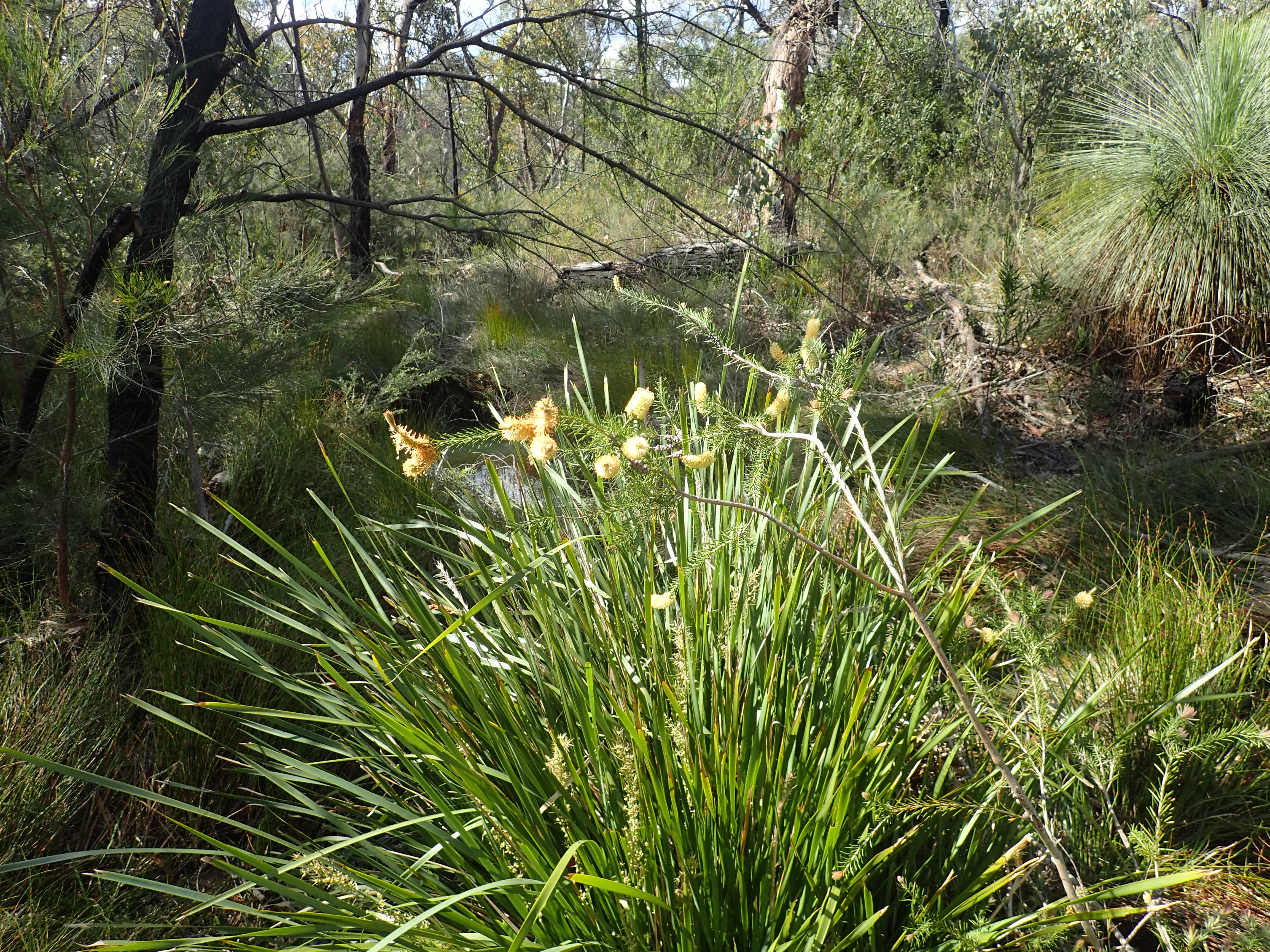 Melaleuca pityoides growing near a stream crossing Carpet Snake Creek in the Torrington State Conservation Area